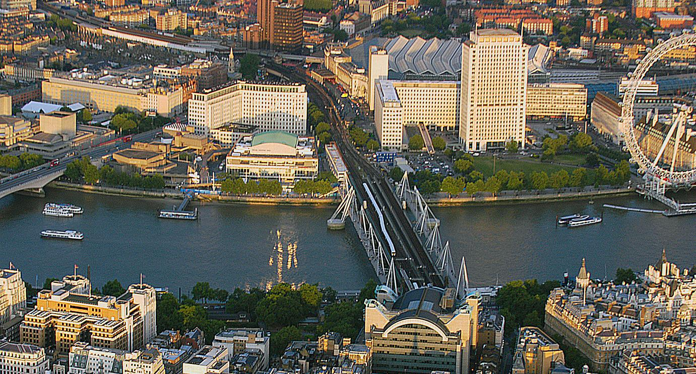 Southbank Centre's 21 acre estate, from Waterloo Bridge to the London Eye. (Luis Artus)